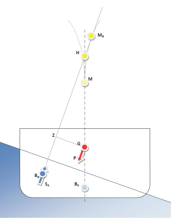 Metacenter and center of buoyancy